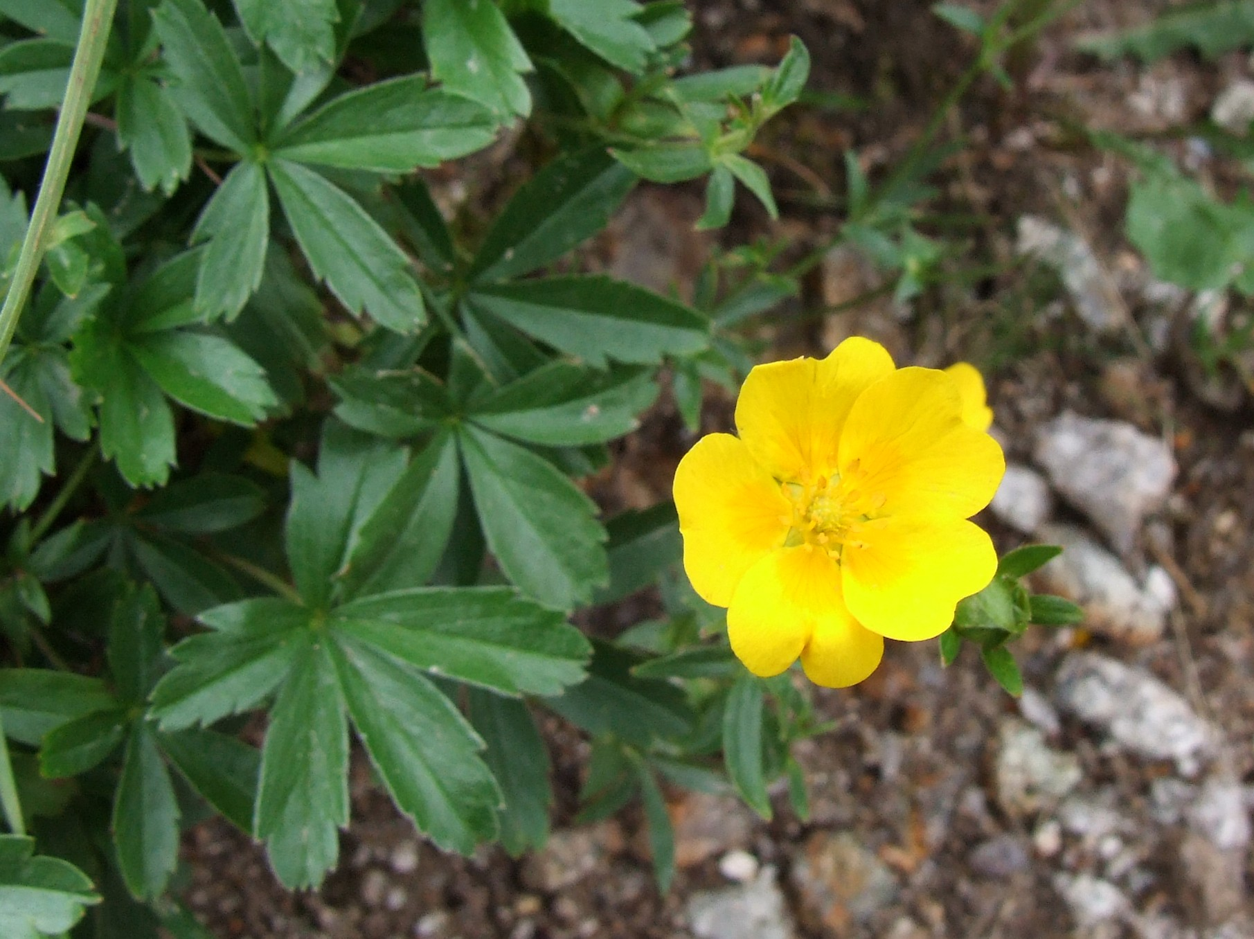 Potentilla aurea (pl. pięciornik złoty), habitat: Spalona Dolina, West Tatra Mountains